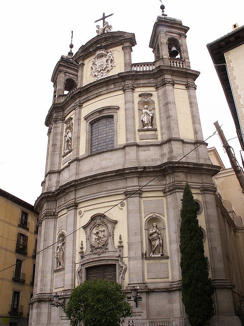 Basílica Pontificia de San Miguel ("St. Michael’s Pontifical Basilica") in Madrid (Spain). This Baroque-style building was projected in 1739 by Giacomo Bonavia (1700–1760, also known as Santiago Bonavía in Spain) and built from 1739 to 1745.